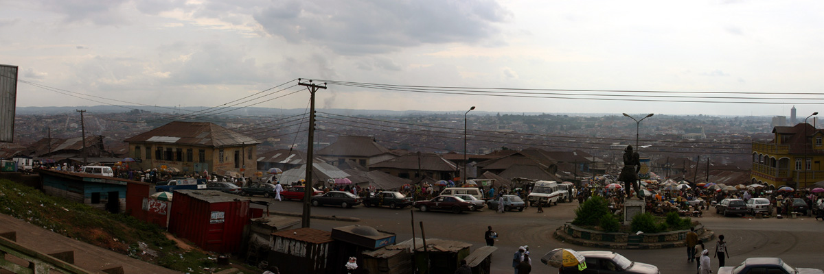 Ibadan Panorama taken from Mapo Hill